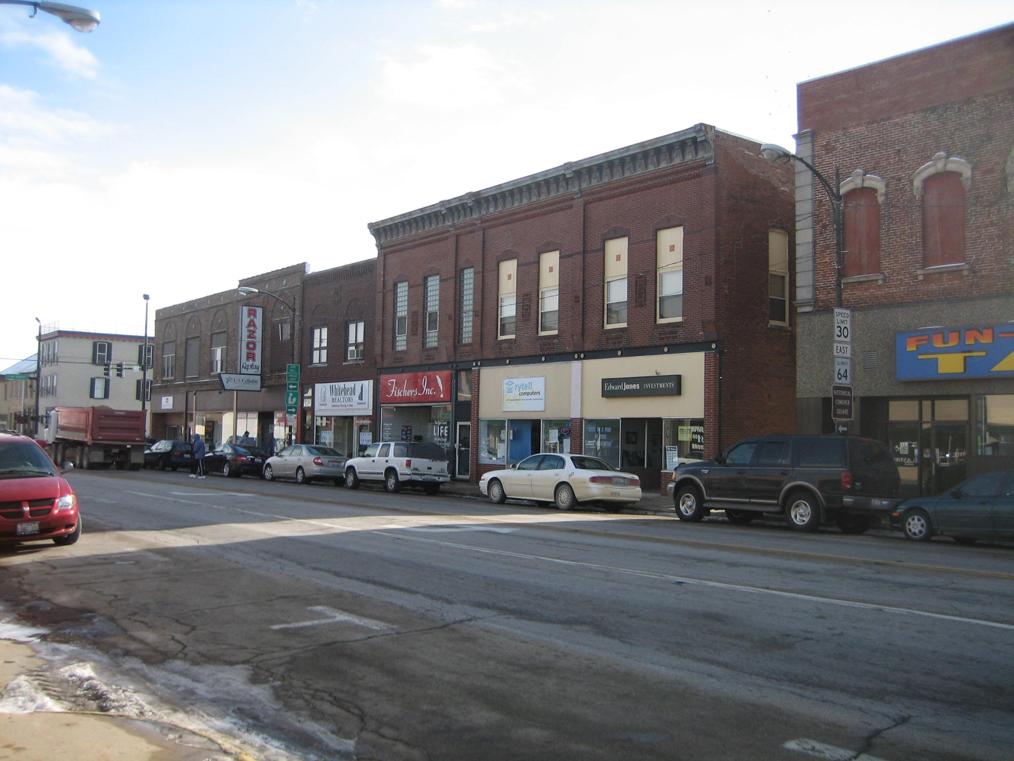 300 Block of Washington St., Oregon, IL. National Register of Historic Places as part of the Oregon Commercial Historic District.